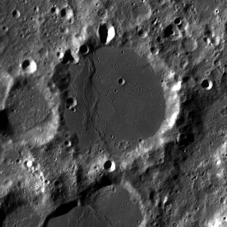 Kugler at center, note the faulted and beveled western floor . Satellite U is at left border of image and N at bottom border